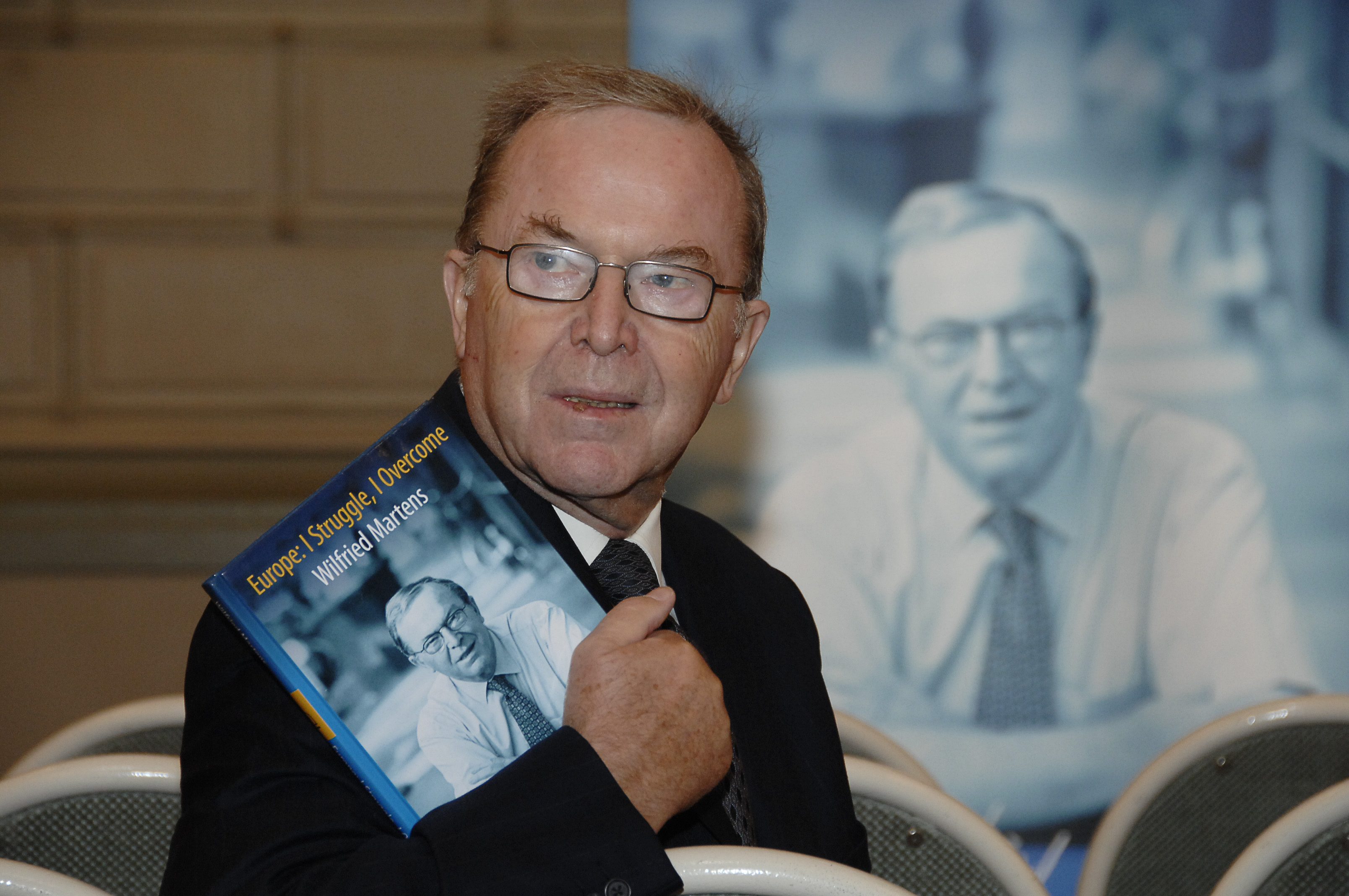 "I Struggle, I Overcome" - book launch